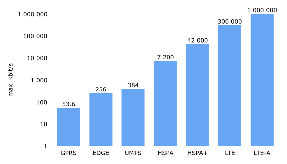 Maximal bit rates of mobile phone standards